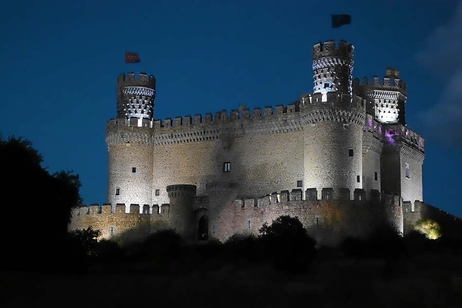 Castle of Manzanares el Real